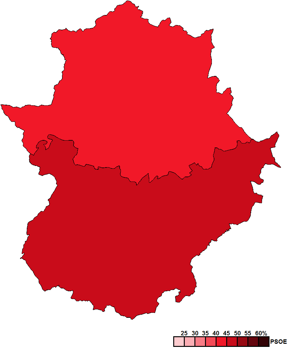 Provincial results for the 2019 Extremaduran regional election.